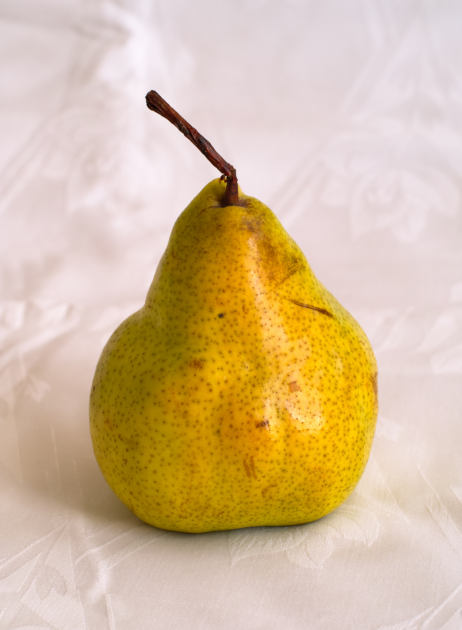 Packham's pear / Packham's Triumph